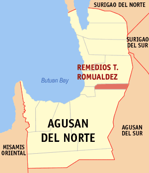 Map of the Agusan del Norte showing the location of Remedios T. Romualdez